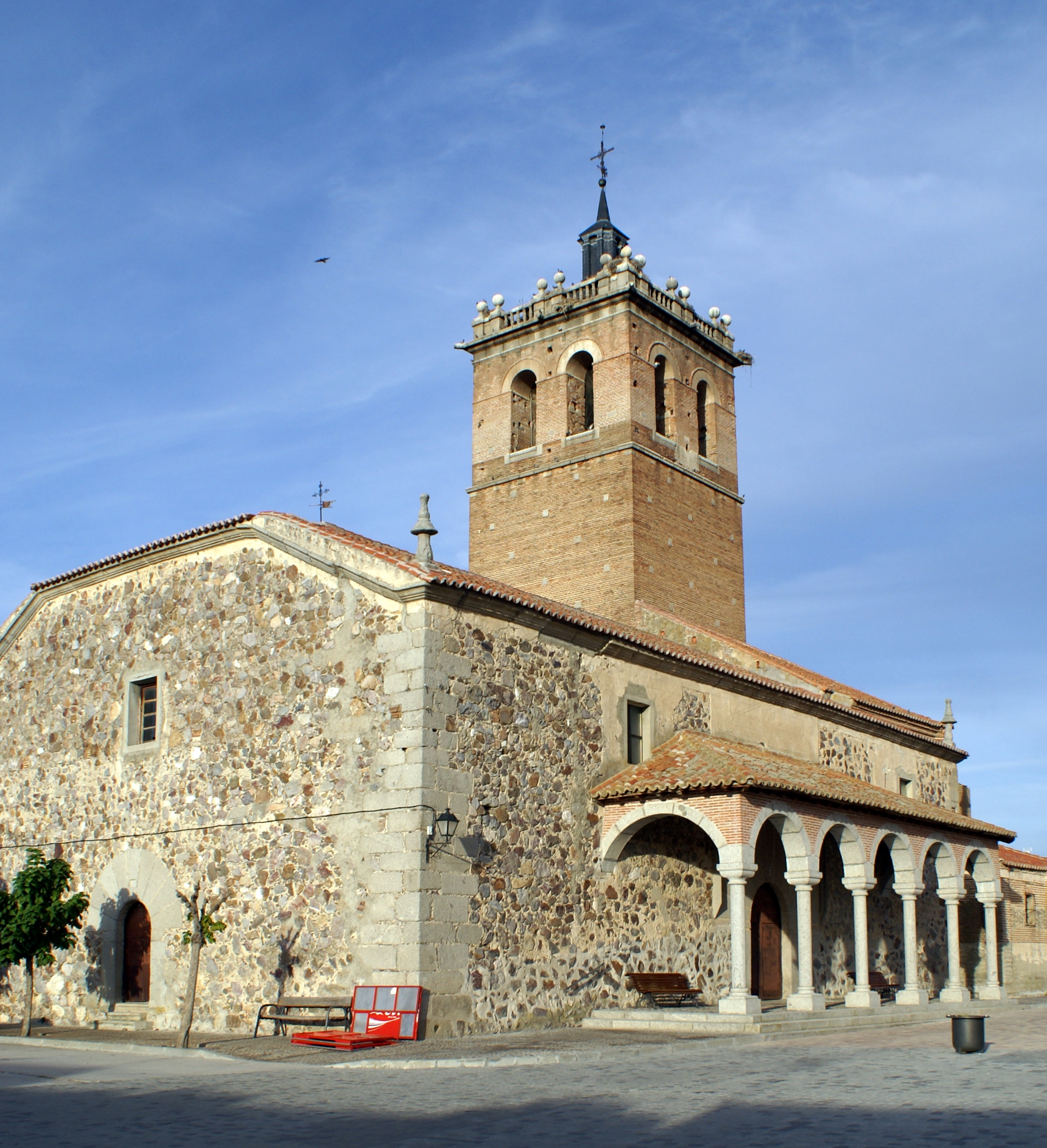 Church of St. John the Baptist in Pajares de Adaja, Ávila, Spain.